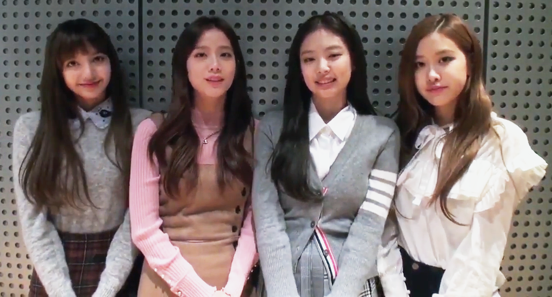 Black Pink in a video for Marie Claire Korea's 25th Anniversary on 21 February 2018